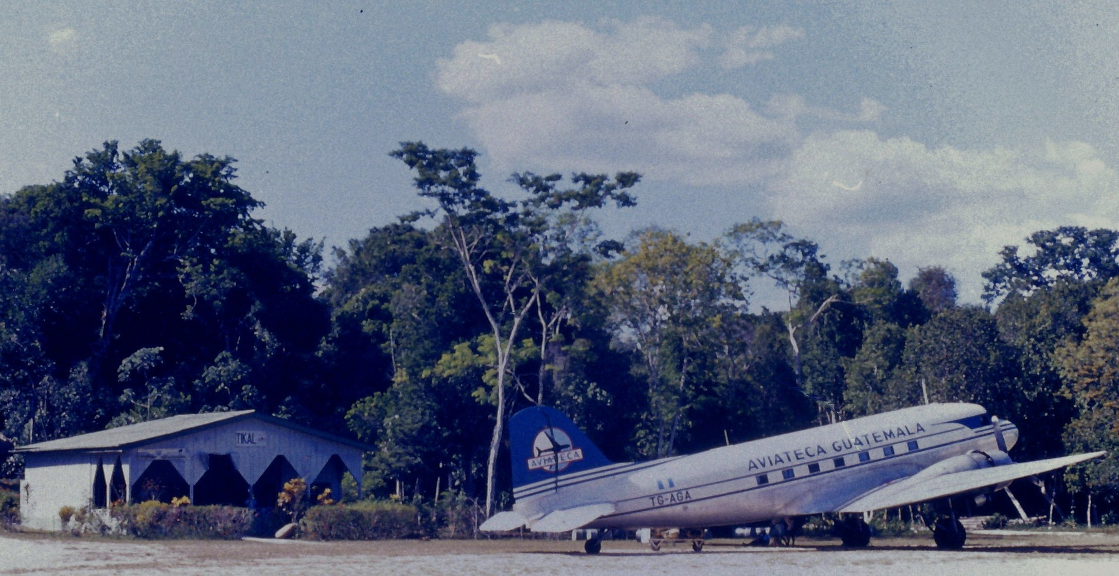 Tikal airfield in 1971